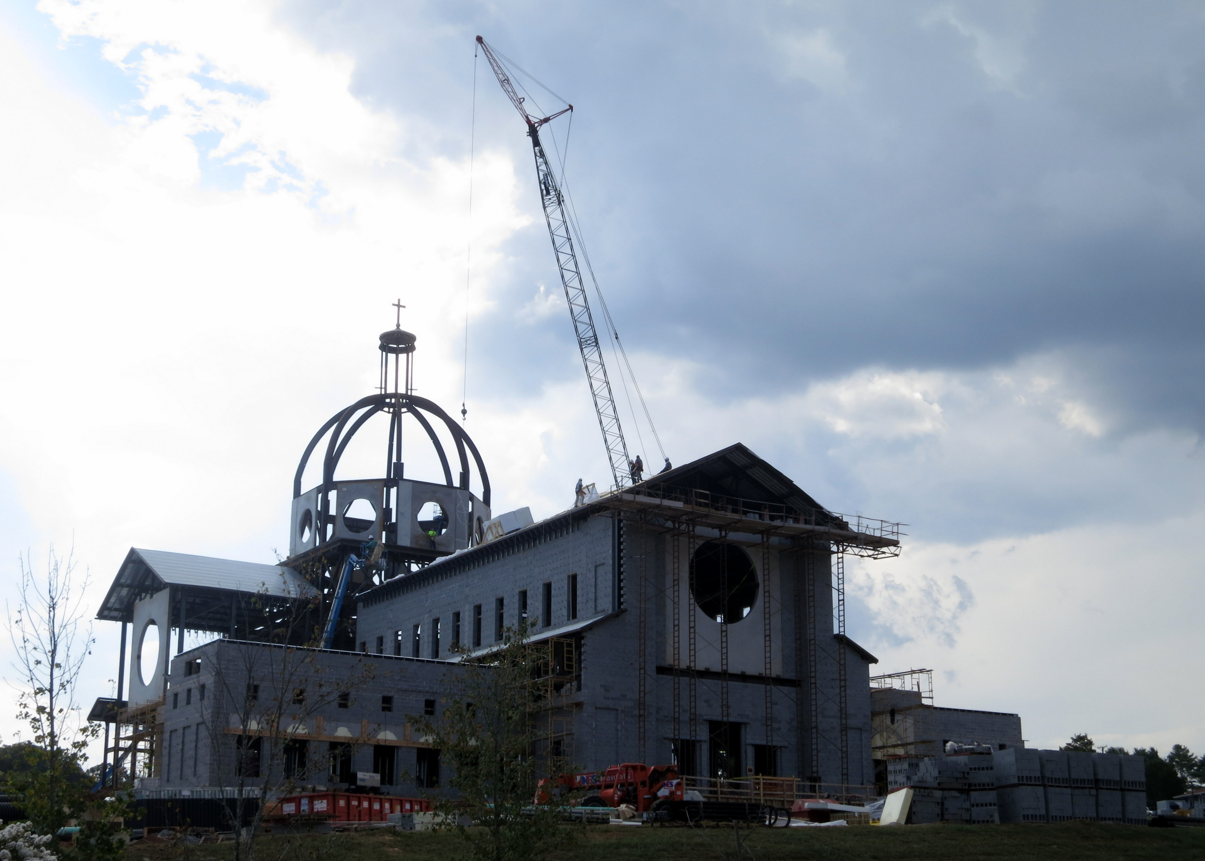 Sacred Heart Cathedral (Knoxville, Tennessee) - new Cathedral under construction